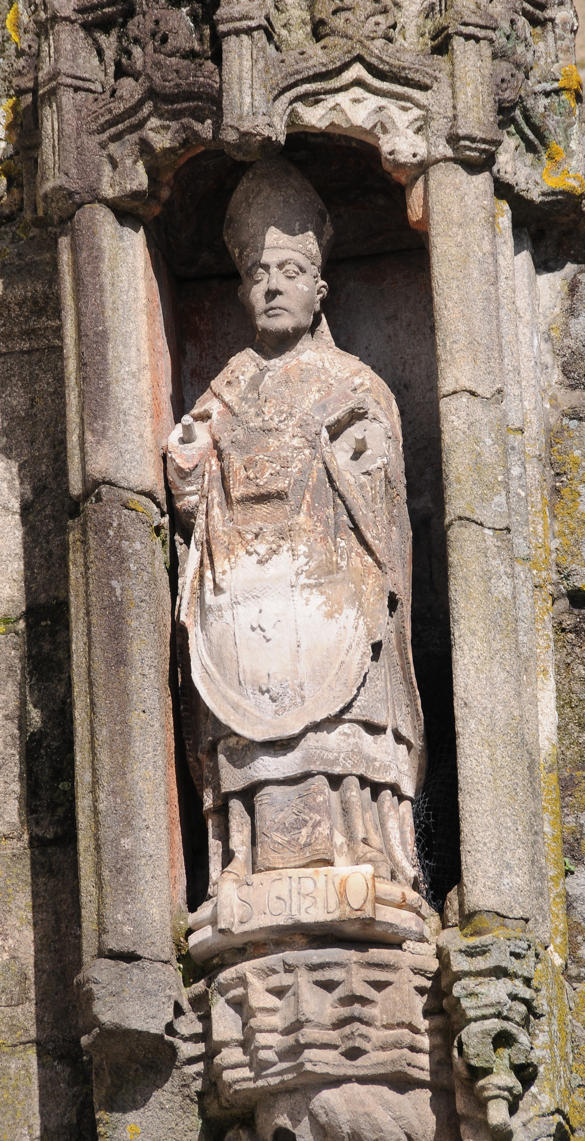 Statue of Saint Geraldo in the Cathedral, Braga, Portugal.